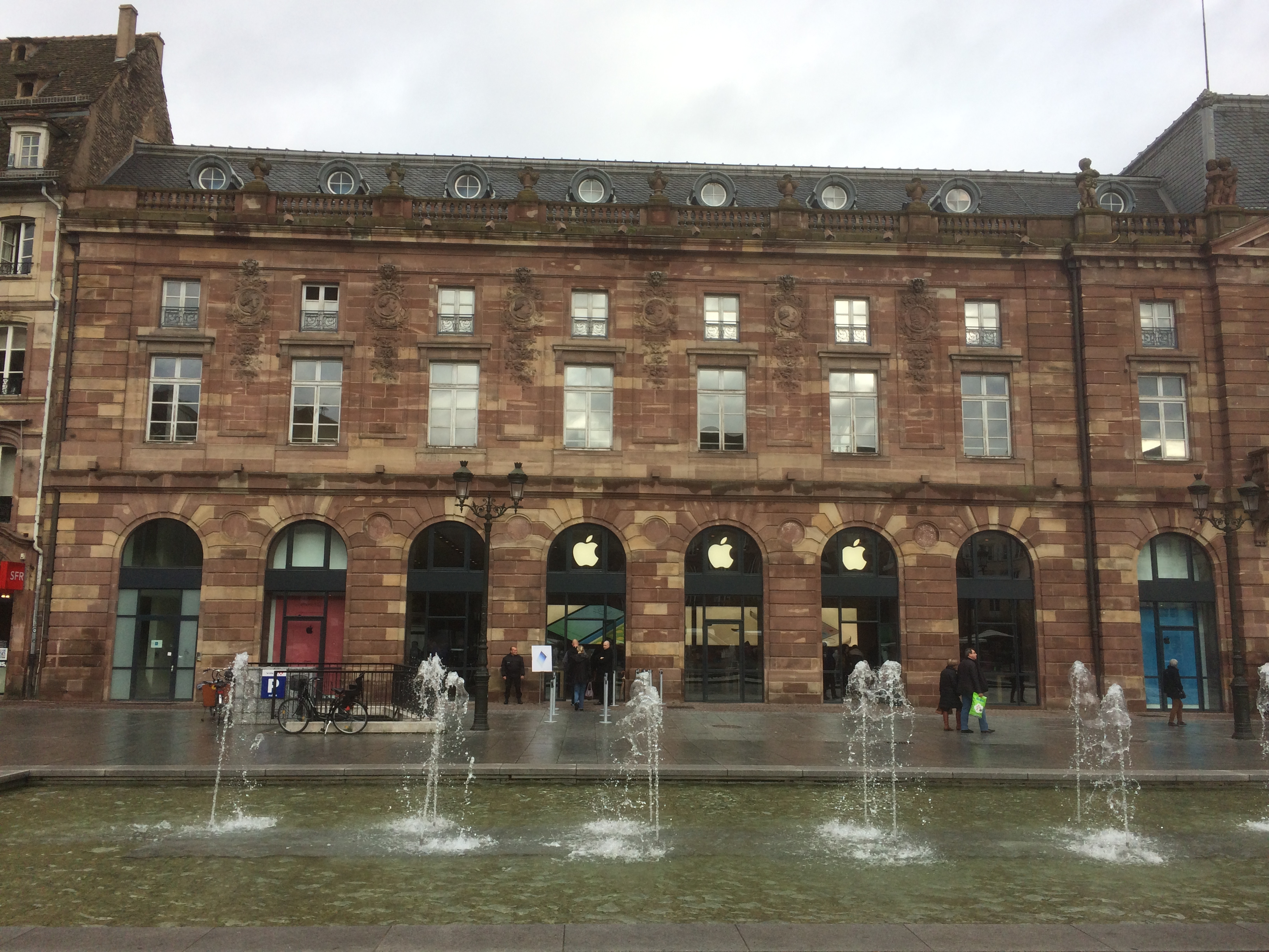 Apple Store in Strasbourg (France)